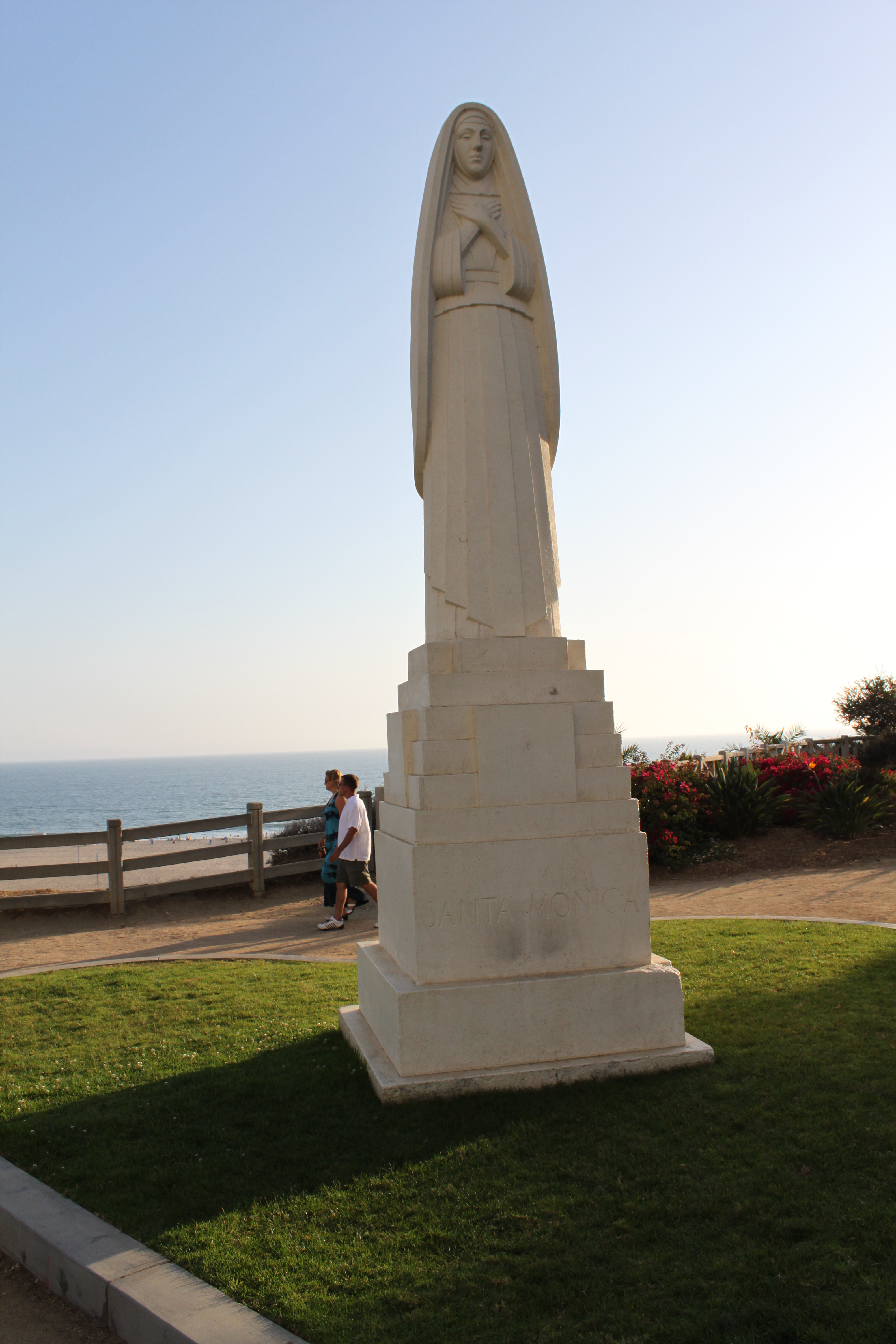 A statue of Saint Monica in the city of Santa Monica, California